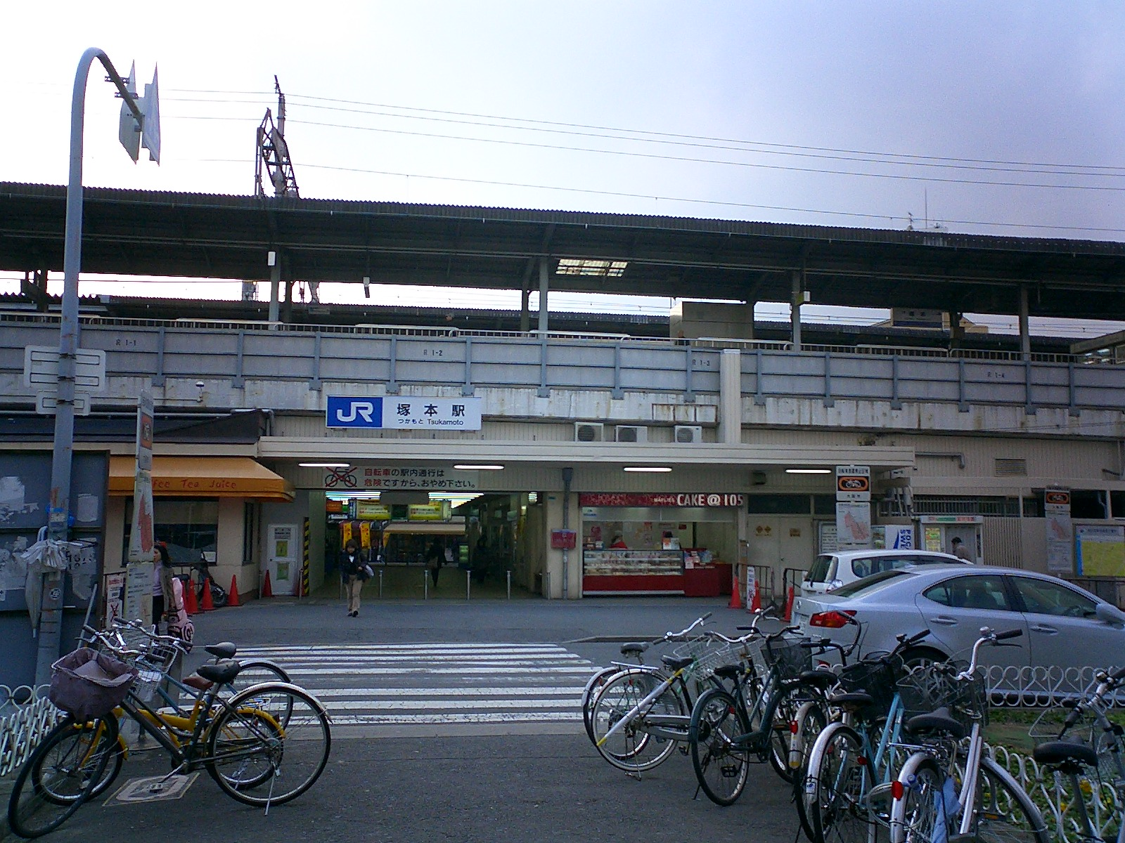 West Japan Railway Tōkaidō Main Line（JR Kōbe Line） Tsukamoto Station Building North Gate